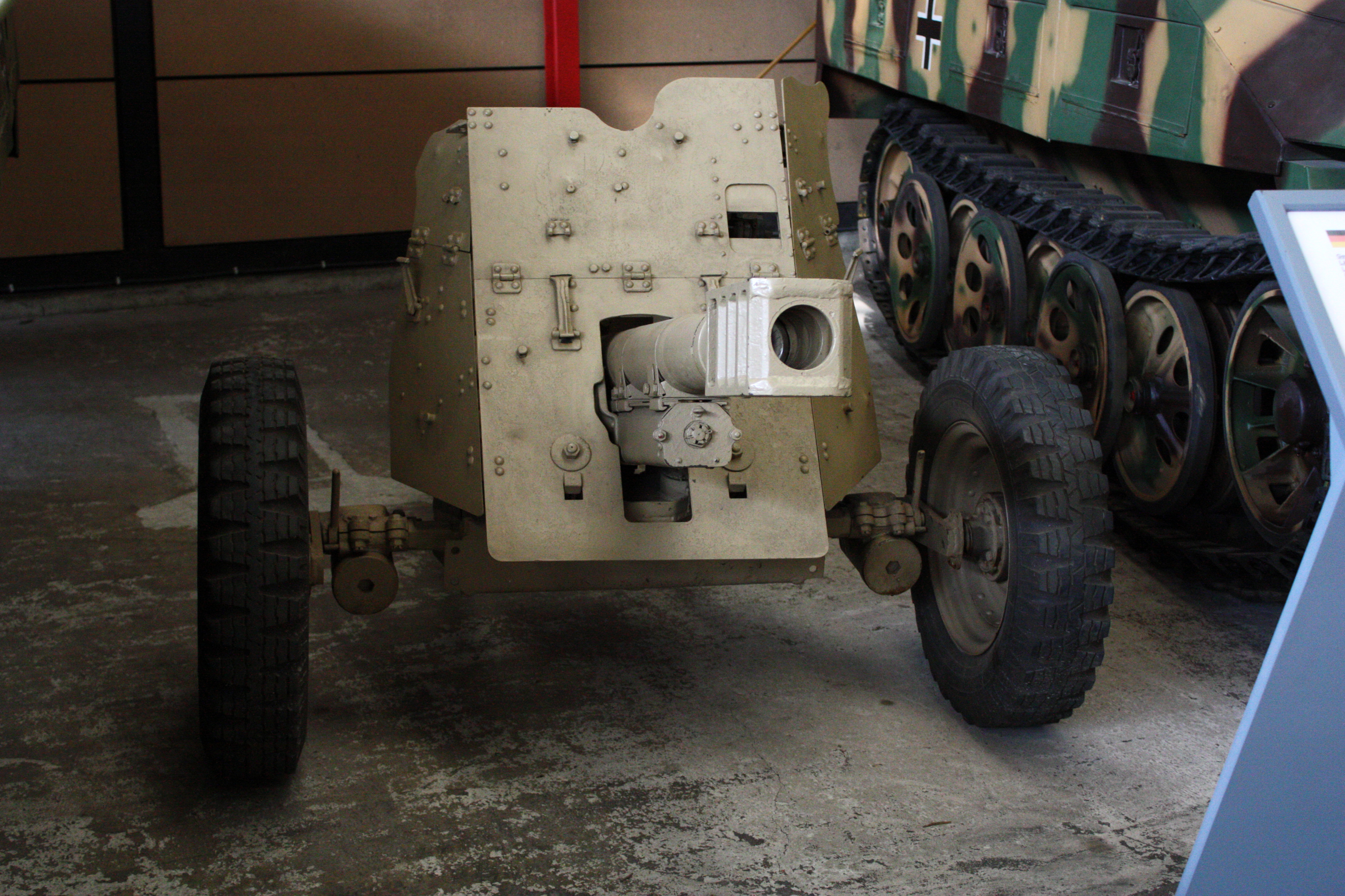 German Tank Museum